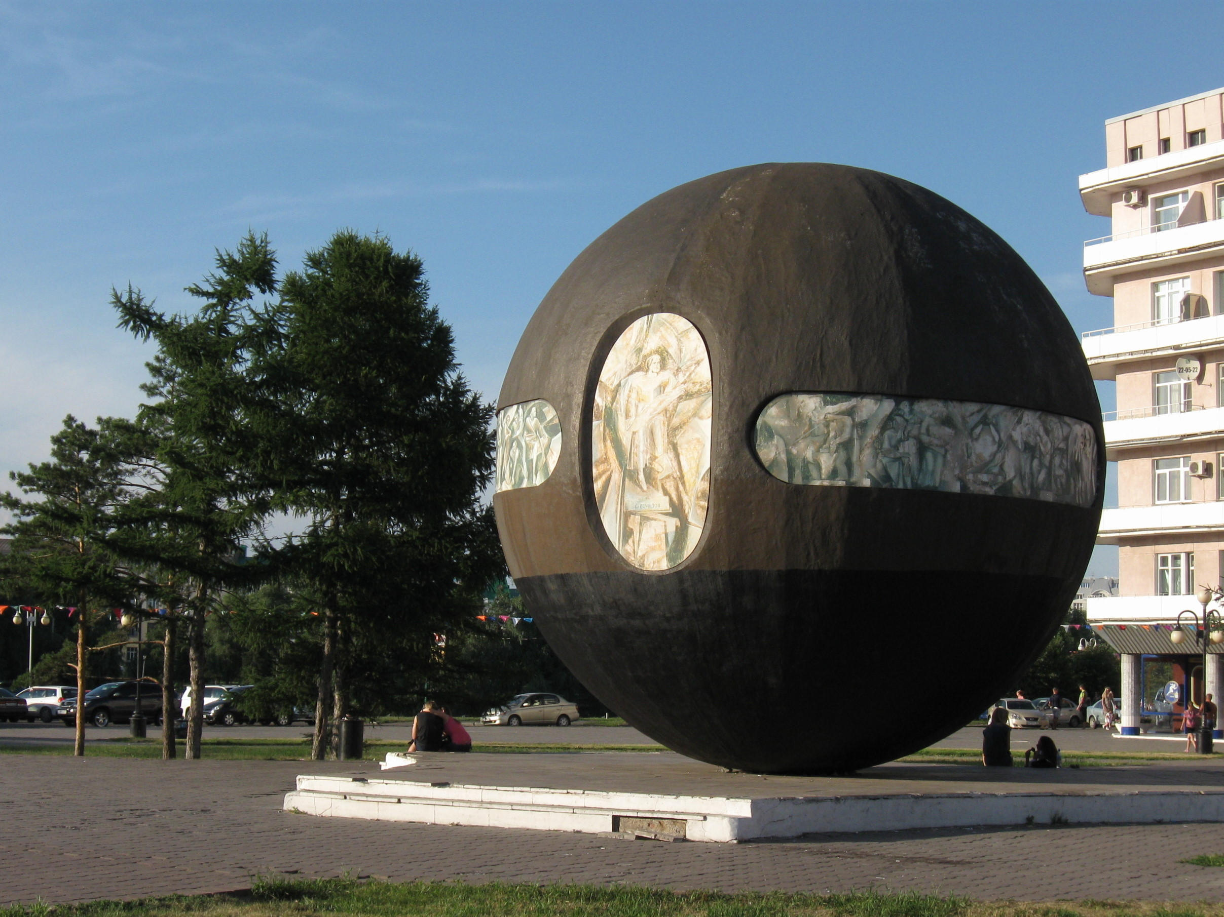 "Derzhava" (Omsk, Russia). Sculptor Vasily Trokhimchuk (project) 1995